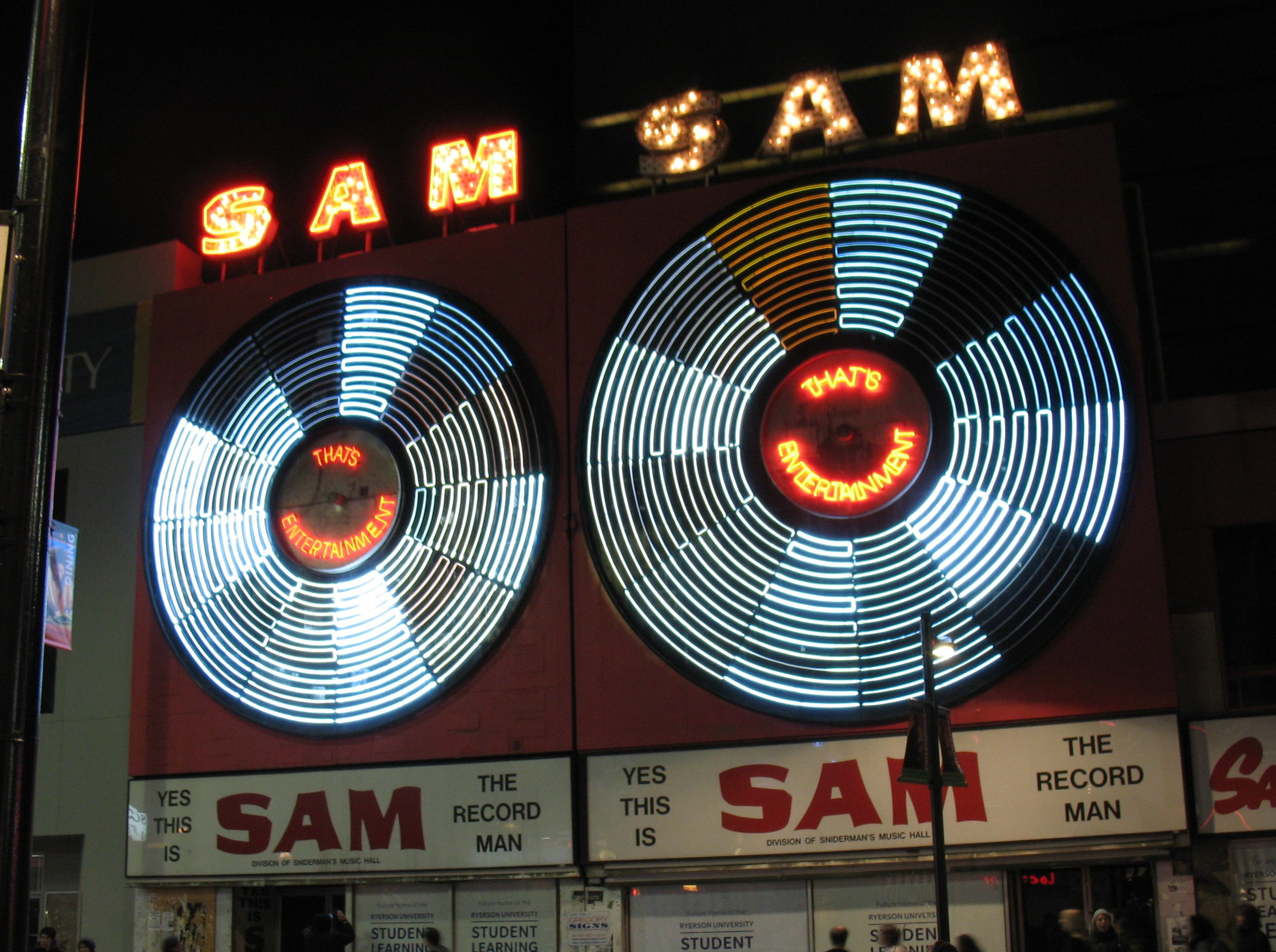 Ryerson University lit up the Yonge Street landmark but announced that this would be the sign's last hurrah before being taken down to allow work to proceed on the shuttered store's conversion into a Ryerson building. October 5, 2008